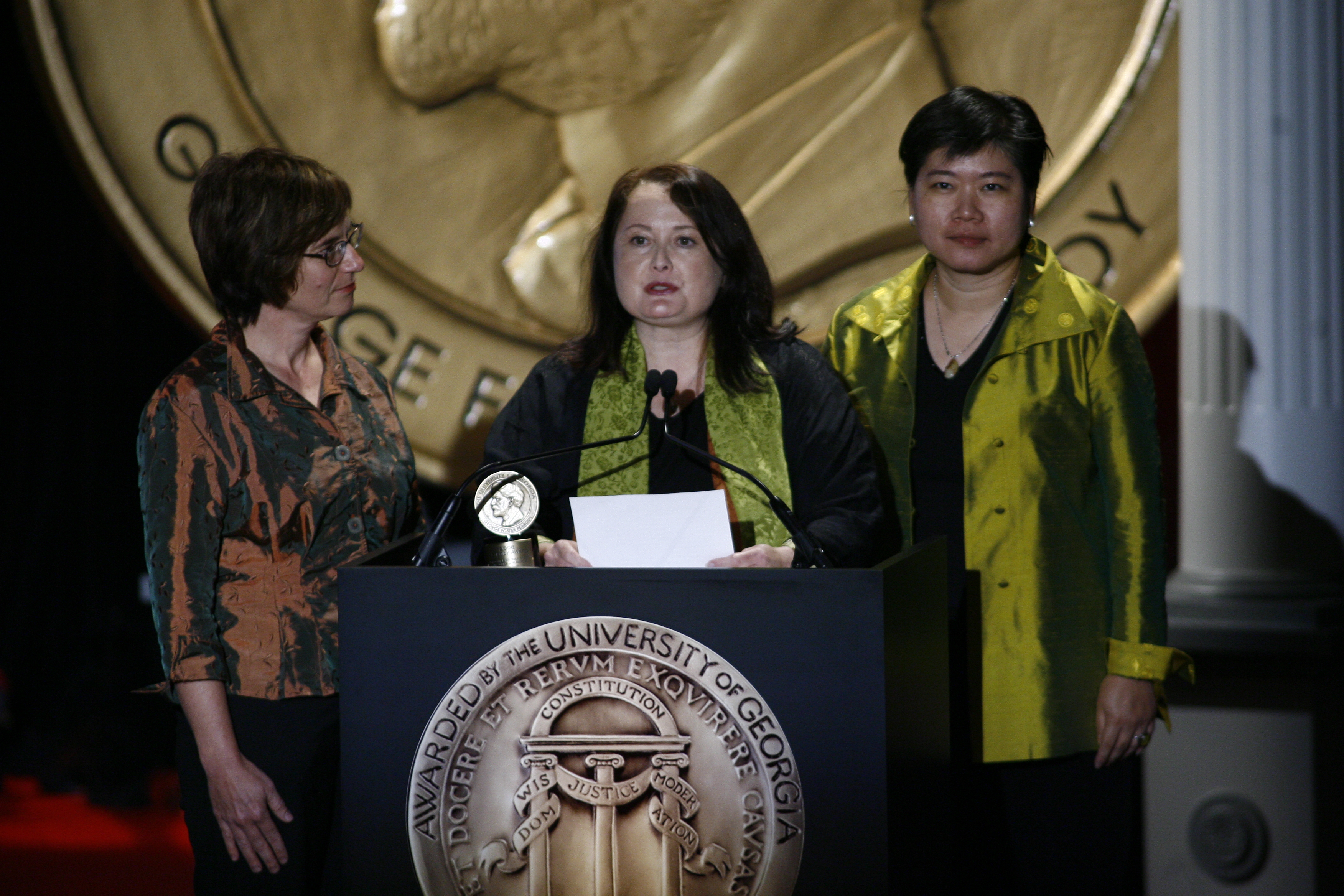 Managing Editor Catherine Stifter (left), Executive Producer Dmae Roberts and Marketing and Outreach Director Ping Khaw (right) accept the Peabody Award for Crossing East 66th Annual Peabody Awards Luncheon, Waldorf=Astoria Hotel, New York, NY USA, June 4, 2007